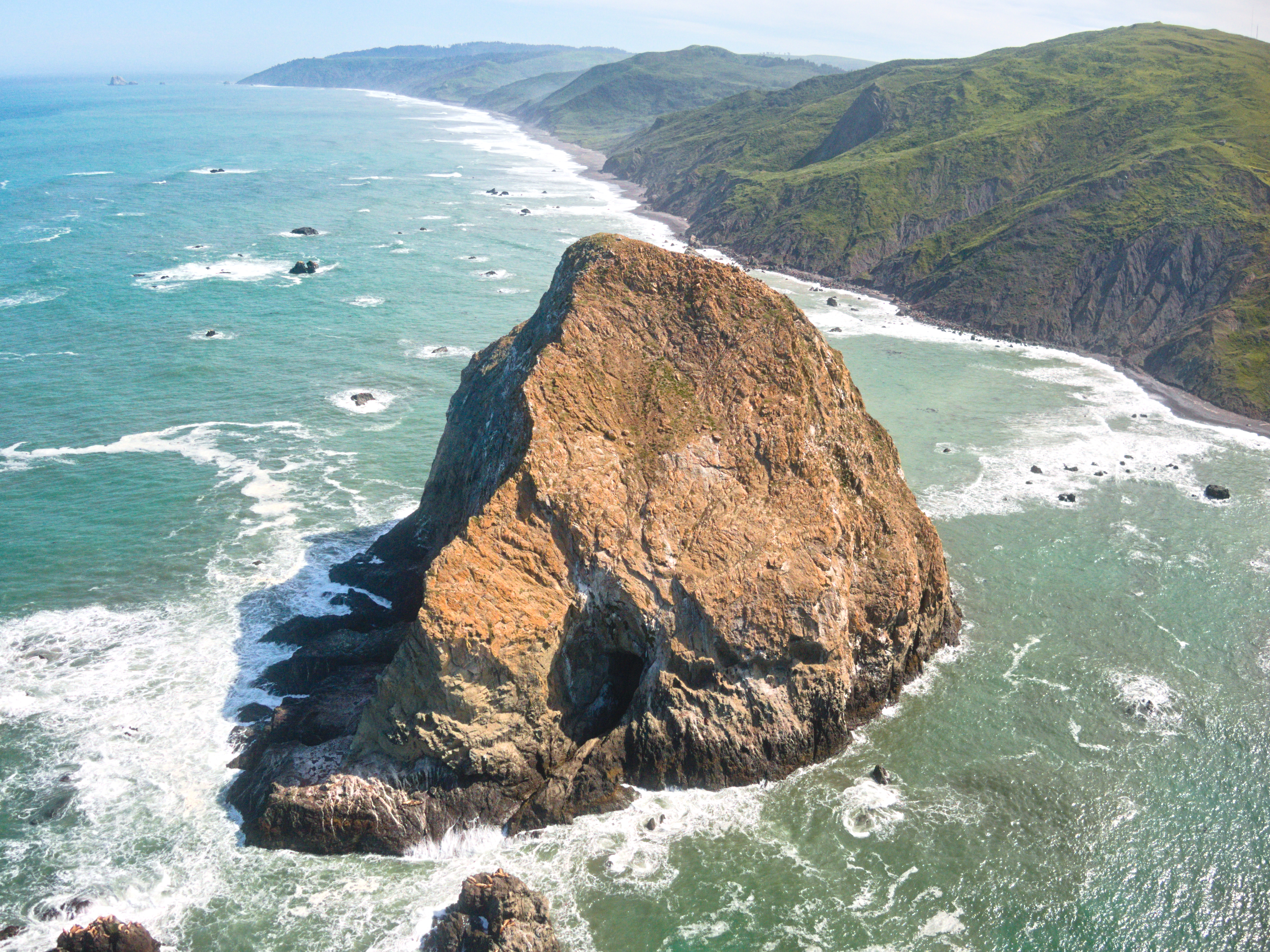 Sugarloaf Island located at the far westerly tip of Cape Mendocino, California. April 2020